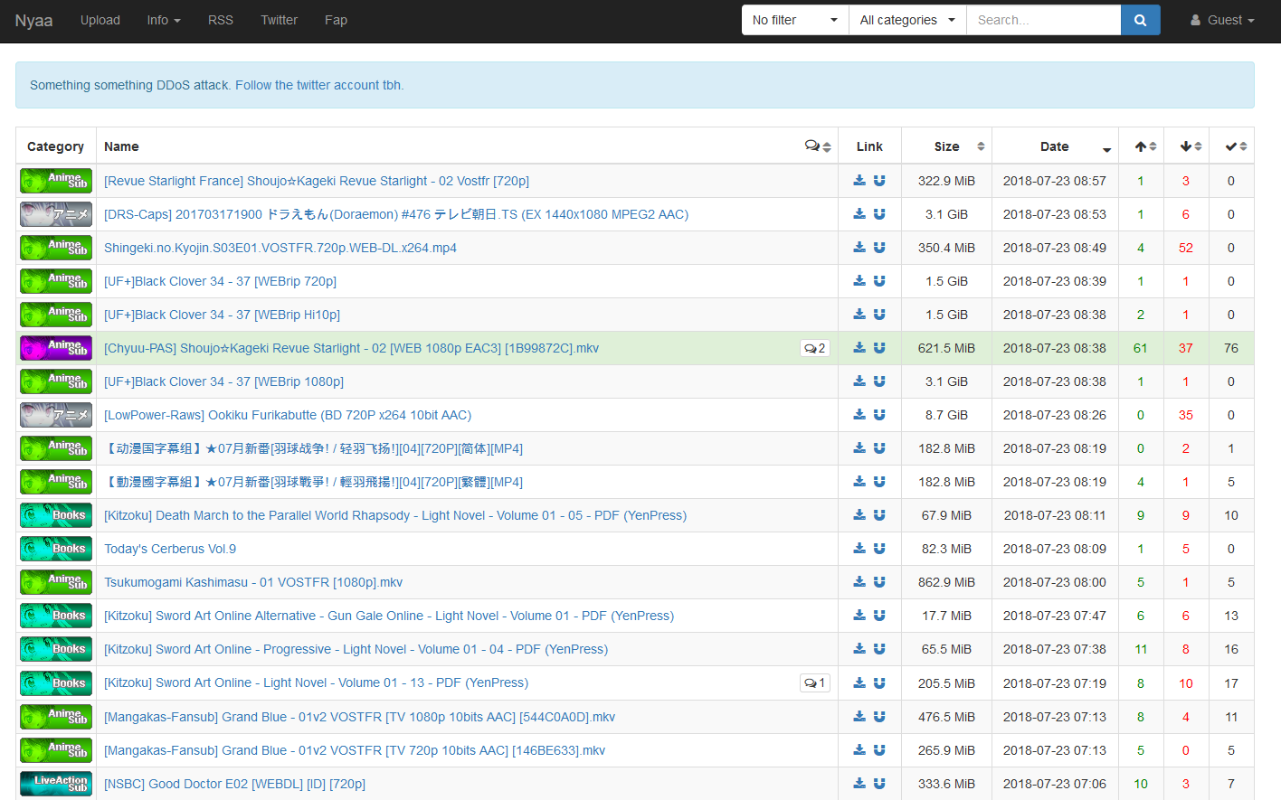 This is a screenshot of nyaa.si (Nyaa V2) for Nyaatorrents entry